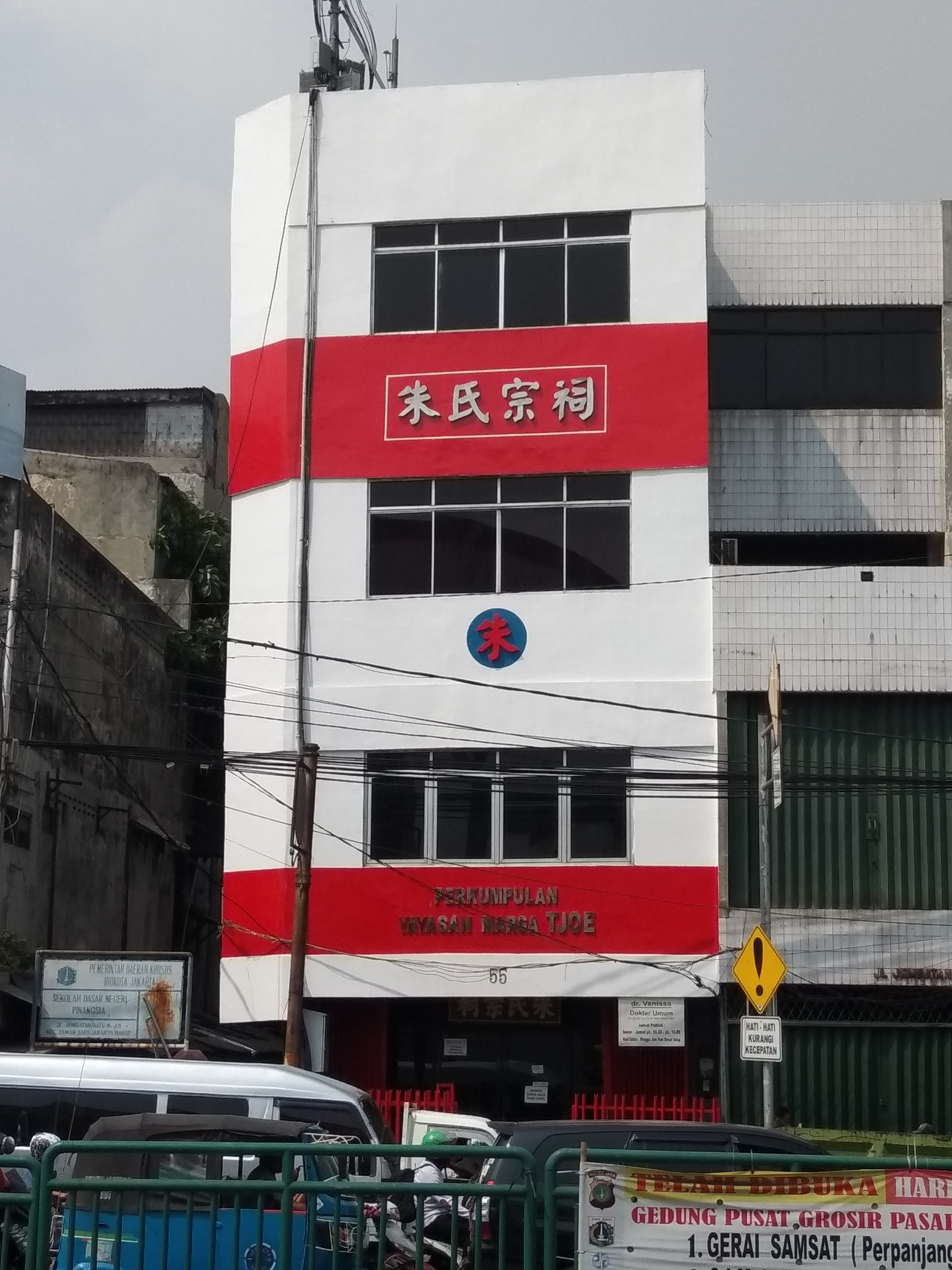 Association of the Zhu Clan Foundation, Jakarta.